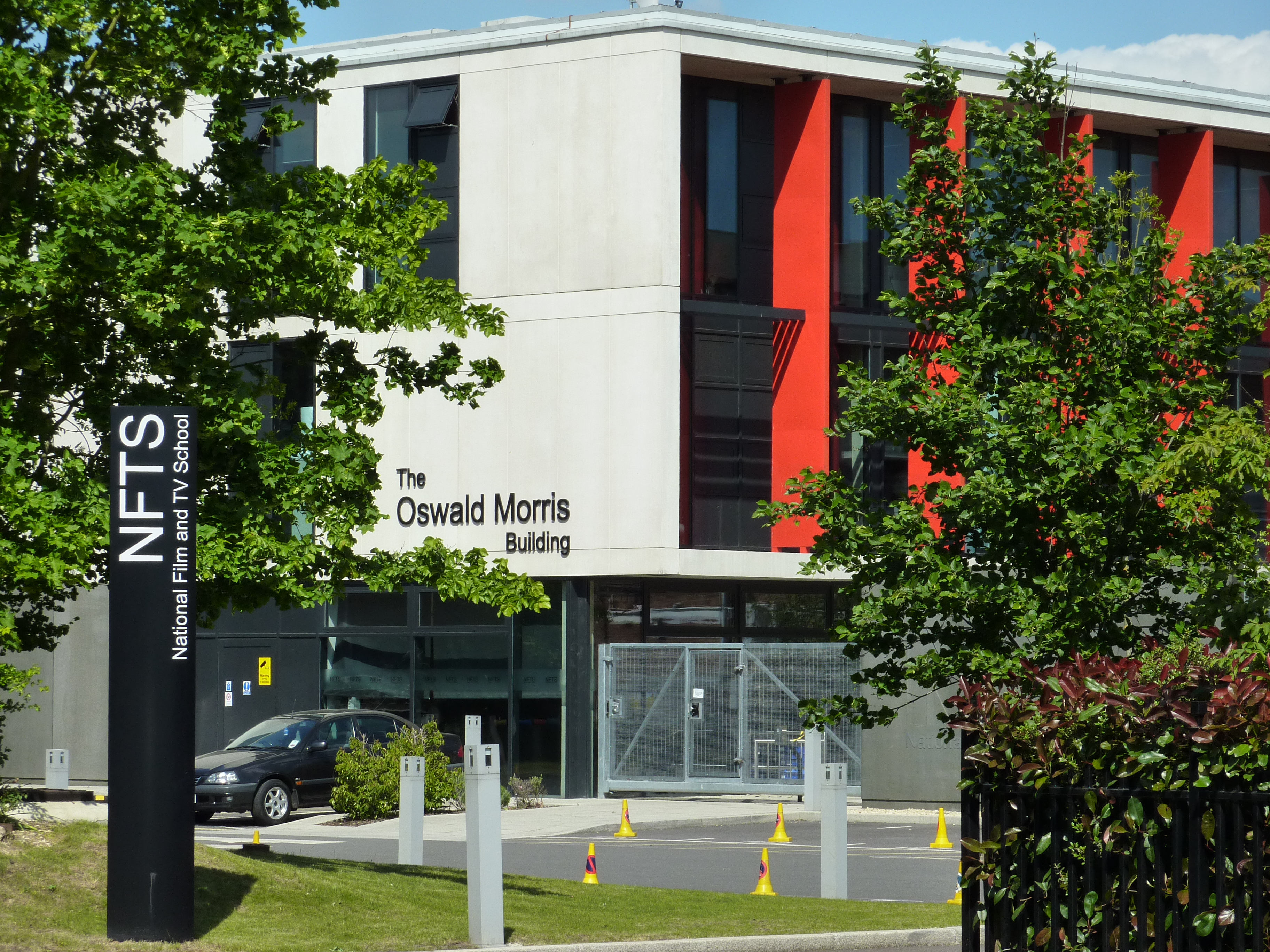 Beaconsfield Film Studios, home of National Film and Television School. Shows The Oswald Morris Building Author: Simon Richards.